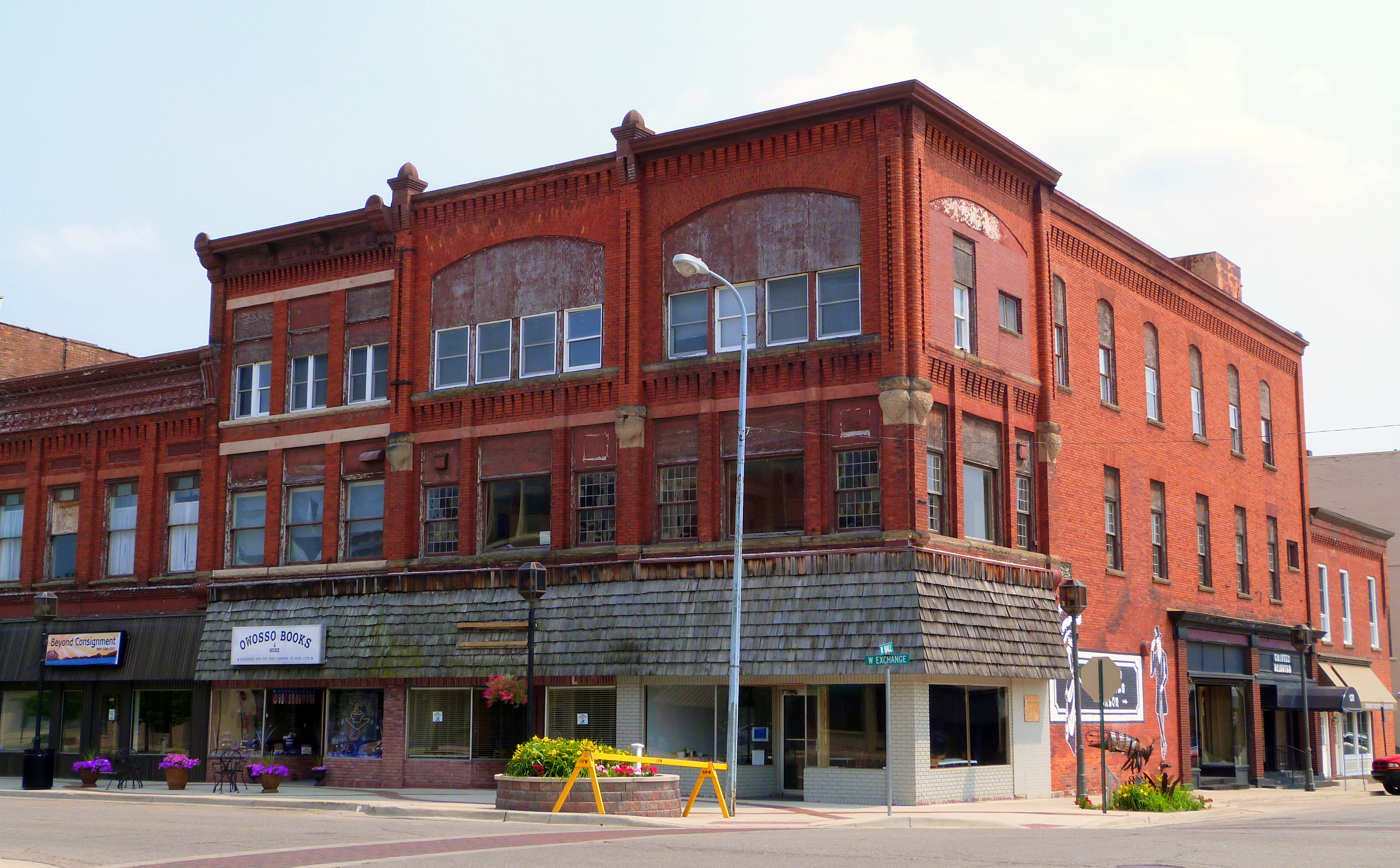 The historic buildings at 119&ndash123 West Exchange Street in Owosso, Michigan, United States, are listed as contributing resources in the Owosso Downtown Historic District. The historic district is listed on the US National Register of Historic Places. The two buildings are: Right (on corner): Connor–Struber Block, 121–123 West Exchange Street, built ca. 1890–1894 Left: Unnamed commercial building, 119 West Exchange Street, built ca. 1910–1913 Also partially shown are: Extreme left edge: Jackson Block, 117 West Exchange Street, built ca. 1890–1894 Extreme right edge: Unnamed commercial building, 114 North Ball Street, built ca. 1908–1915